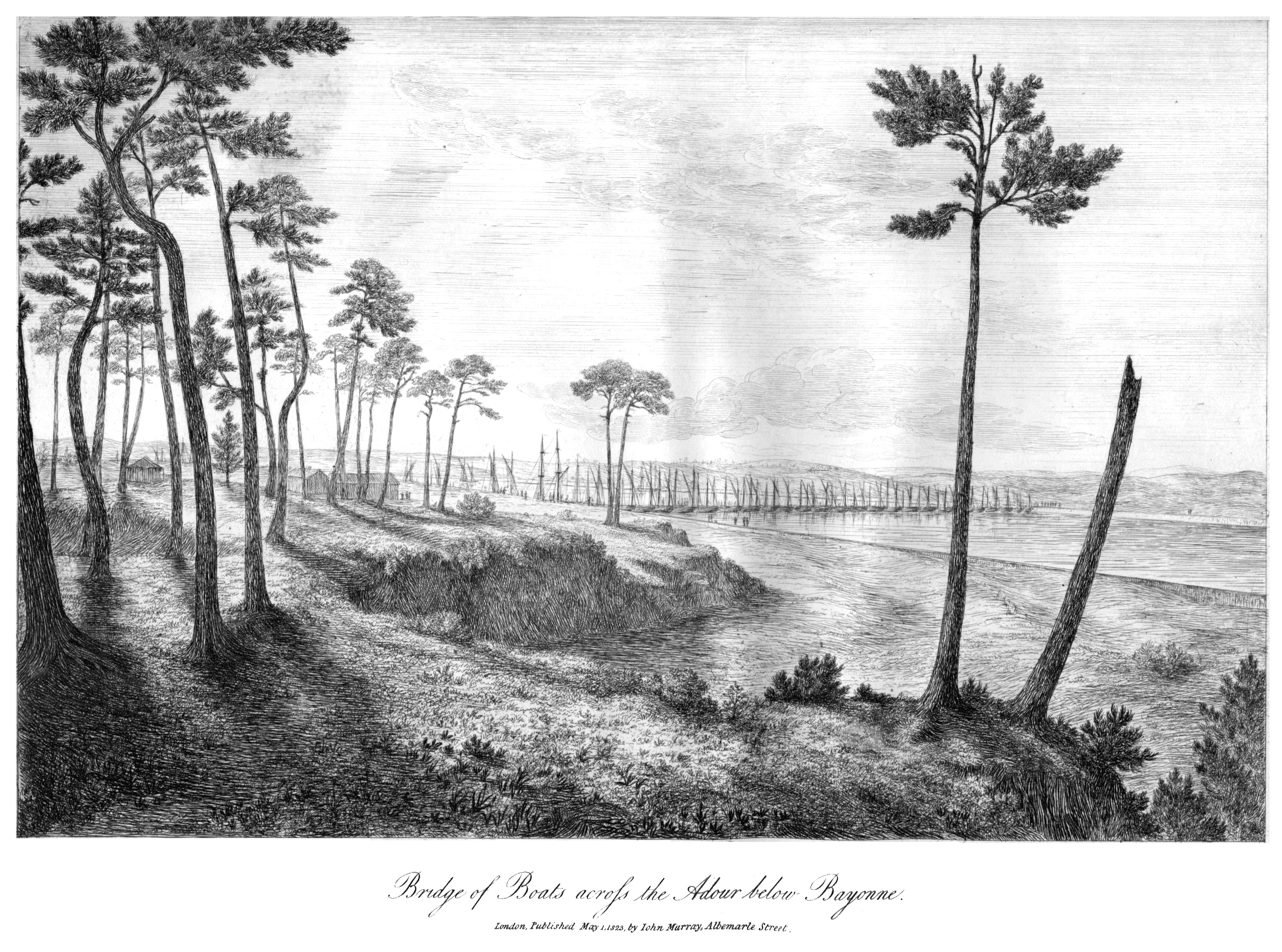 Bridge of Boats across the Adour below Bayonne